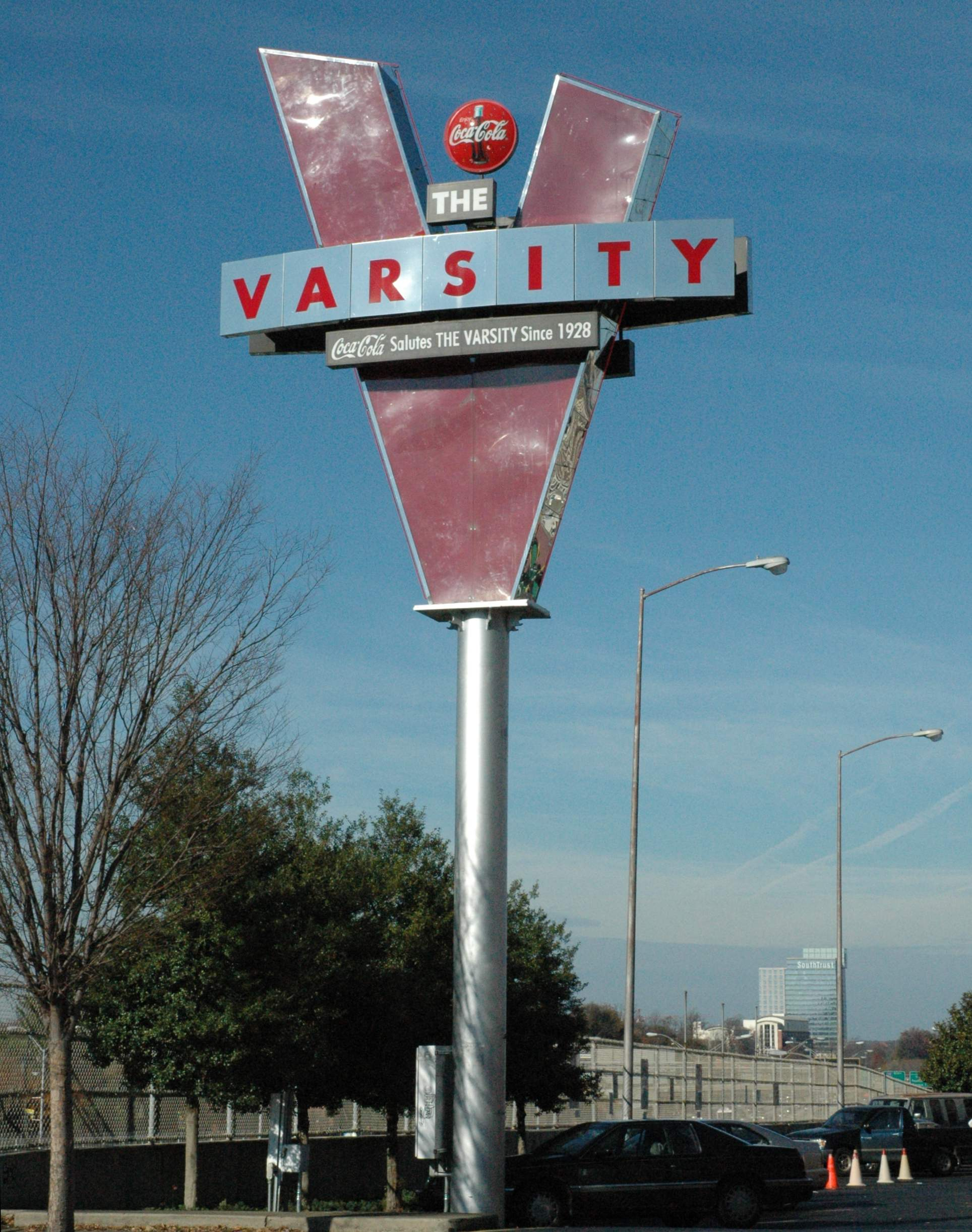 The famous "V" sign of The Varsity restaurant in Atlanta, Georgia. Taken by J. Glover (AUtiger) on December 12, 2004 .